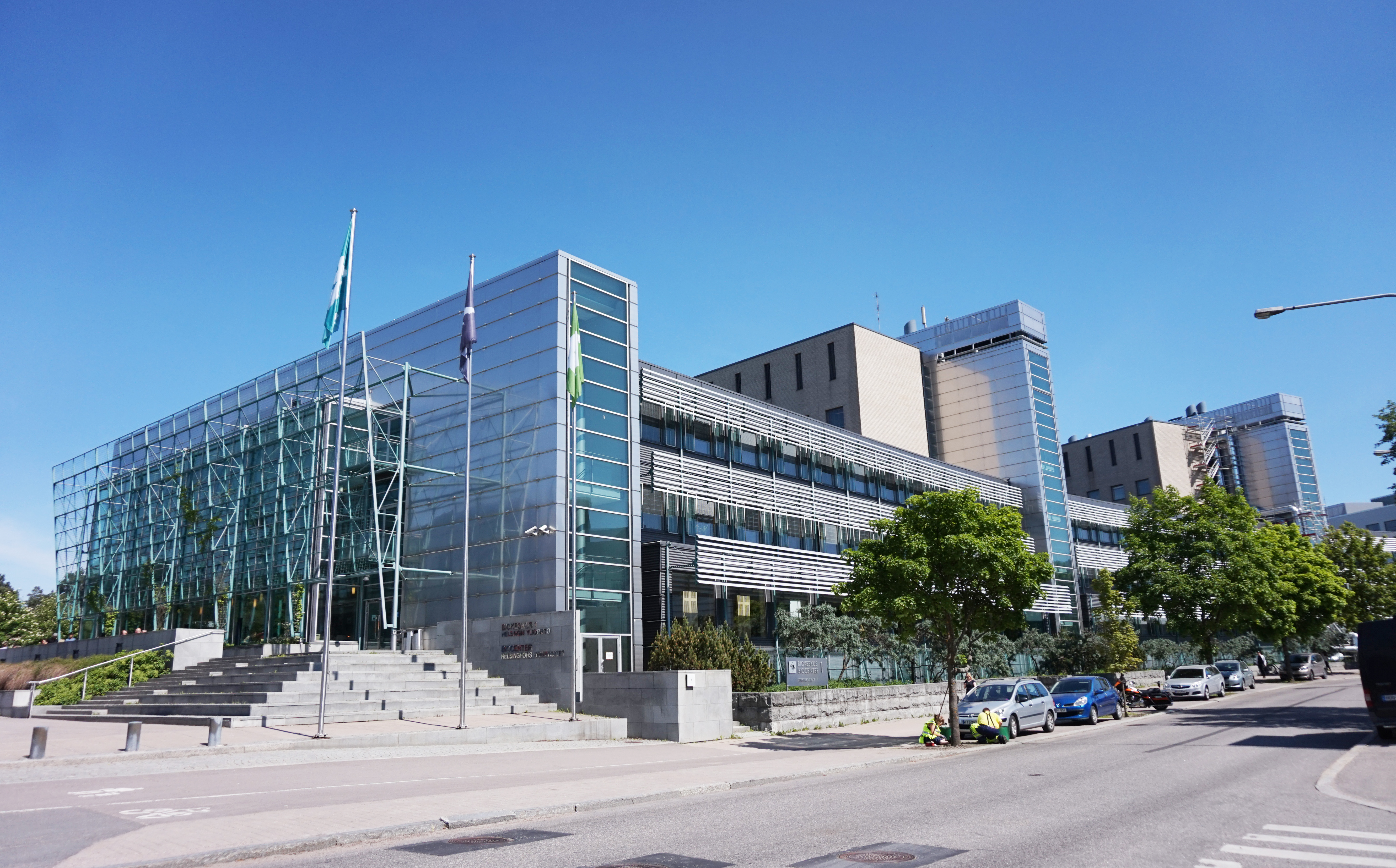 Biokeskus in Viikki Campus, Helsinki.This photograph was taken with a Sony ILCE-5000